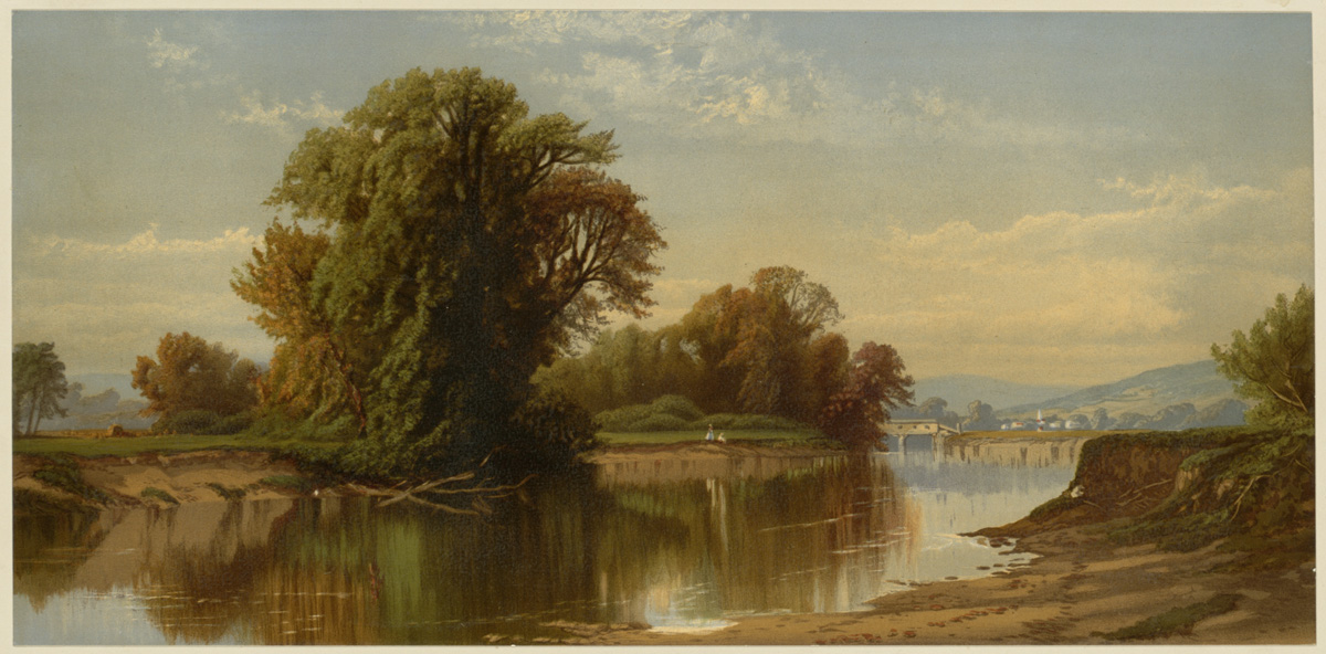 File name: 07_11_001293 Title: Early Autumn on Esopus Creek Creator/Contributor: Bricher, Alfred Thompson, 1837-1908 (artist); L. Prang & Co. (publisher) Date issued: 1861-1897 (approximate) Copyright date: Physical description note: Genre: Chromolithographs; Landscape prints Location: Boston Public Library, Print Department Rights: No known restrictions Flickr data on 2011-08-06: Camera: Sinar AG Sinarback 54 FW, Sinar m License: CC BY 2.0 User: Boston Public Library BPL